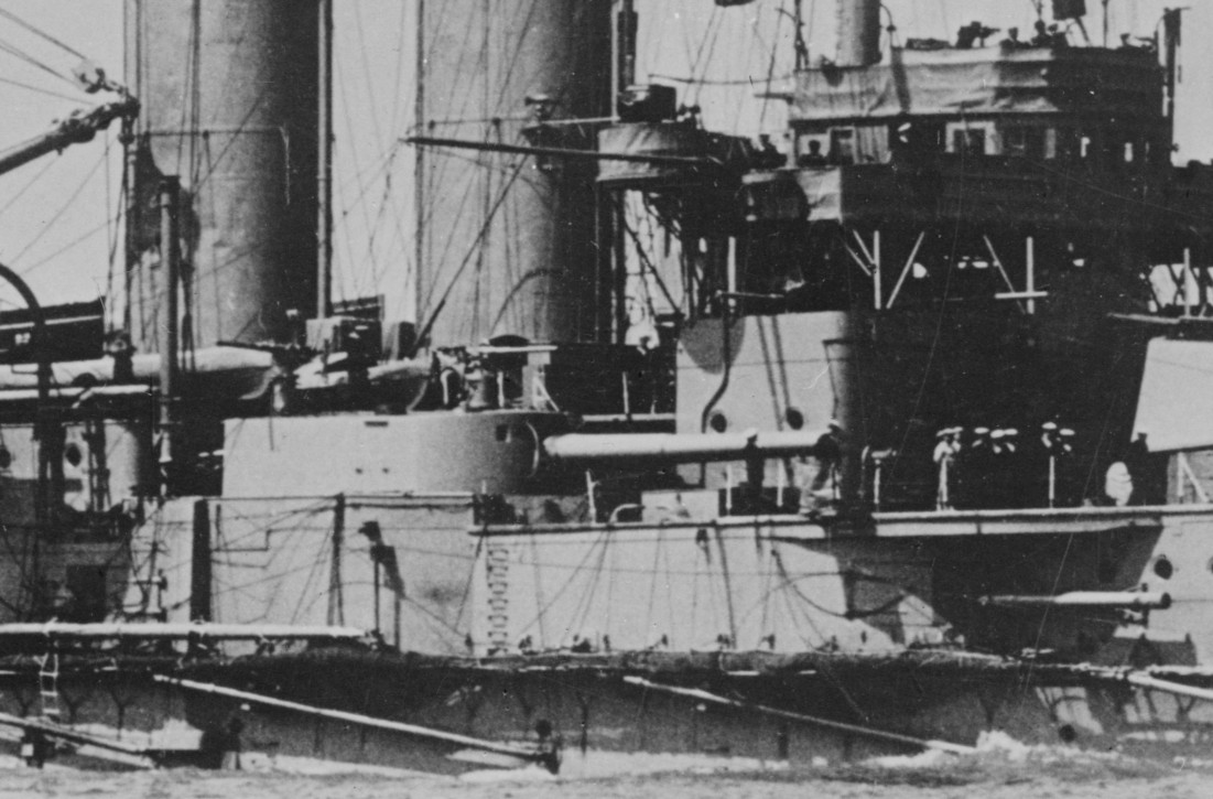 Photograph of starboard forward BL 9.2 inch gun on British battleship HMS King Edward VII. This is a clip from File:HMS King Edward VII LOC LC-DIG-ggbain-17323.jpg.